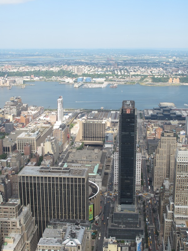 One Penn Plaza (black building) with Madison Square Garden and Two Penn Plaza to the left.